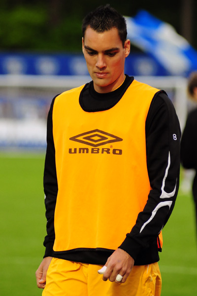 Photo of soccer player, Mauricio Salles.